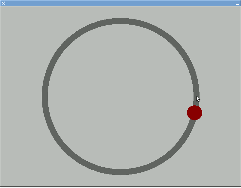 Screenshot of the PEBL Pursuit Rotor Task